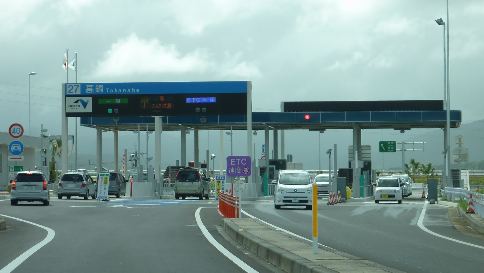 Toll plaza at Takanabe Interchange on the Higashi-Kyushu Expressway in Takanabe Town, Miyazaki Prefecture, Japan